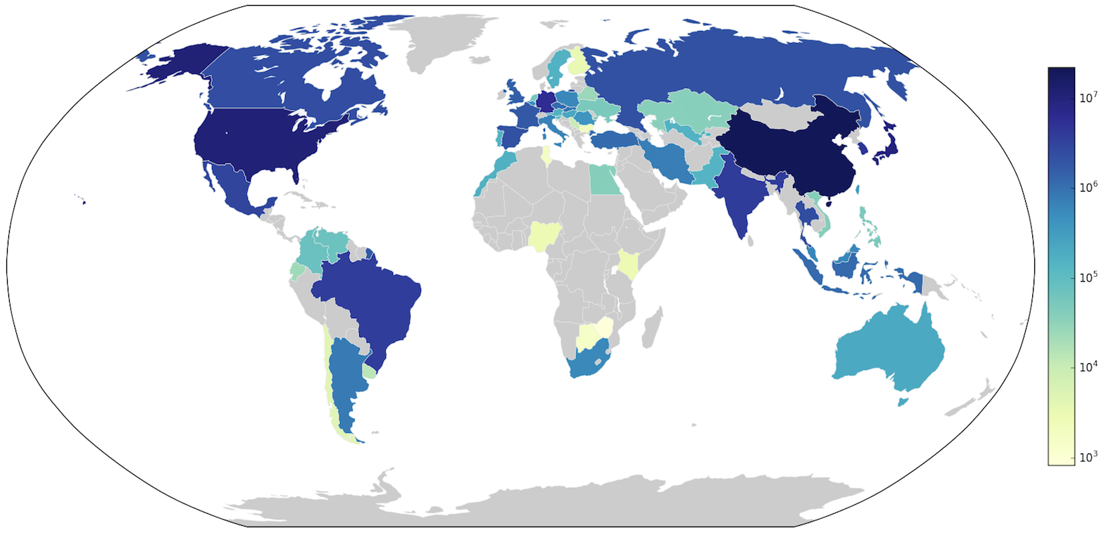 This is a world map showing the production of motor vehicles as of 2013.